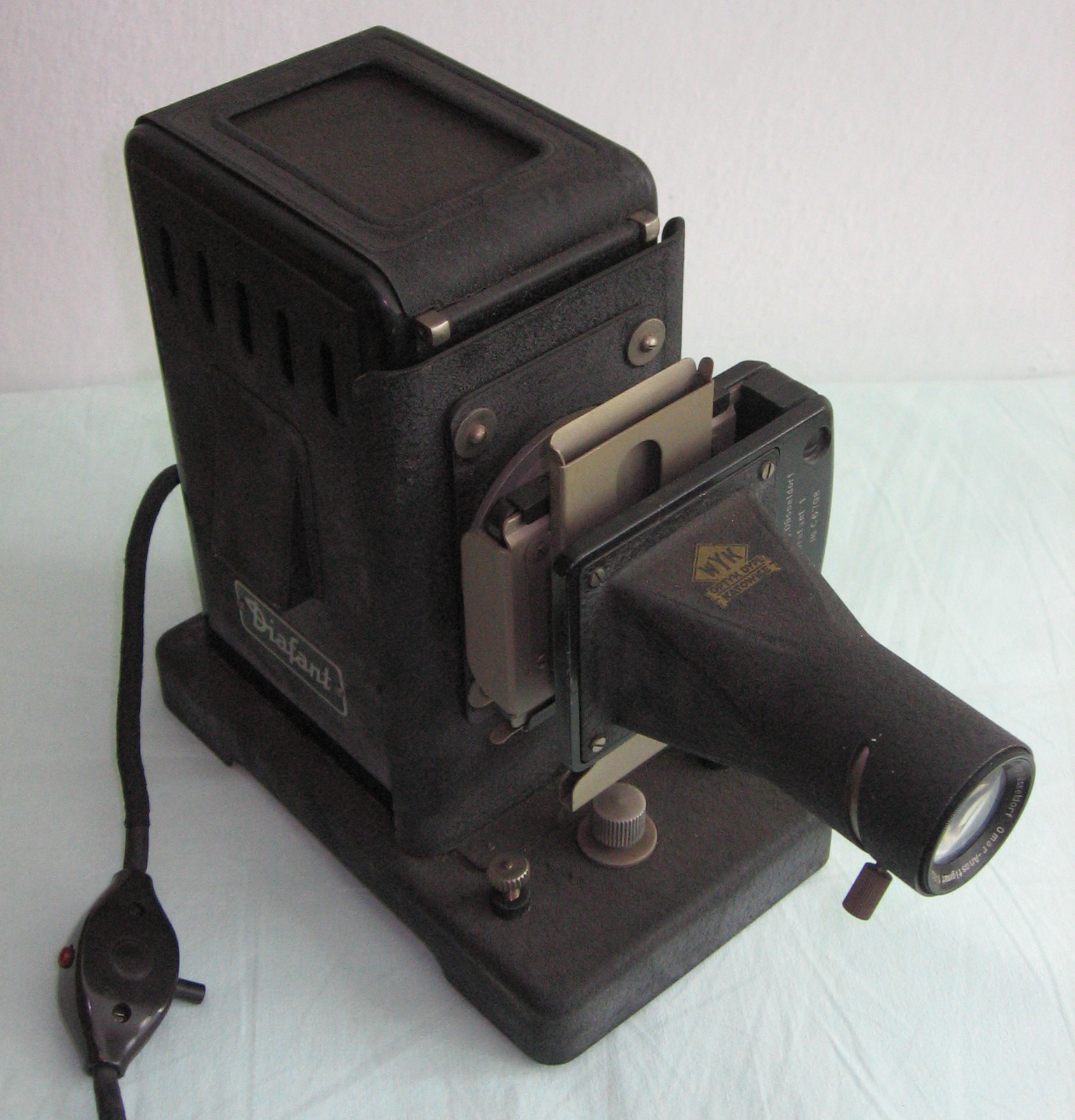 This projector, typ Diafant for slides 5 cm x 5 cm, was manufactured by Liesegang, Düsseldorf.